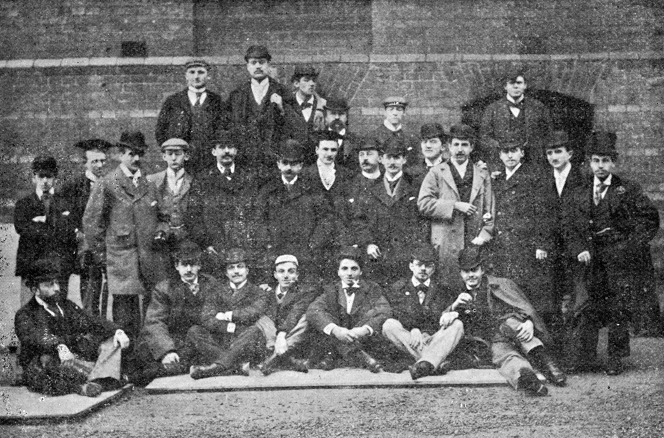 Book by Pierre de Coubertin